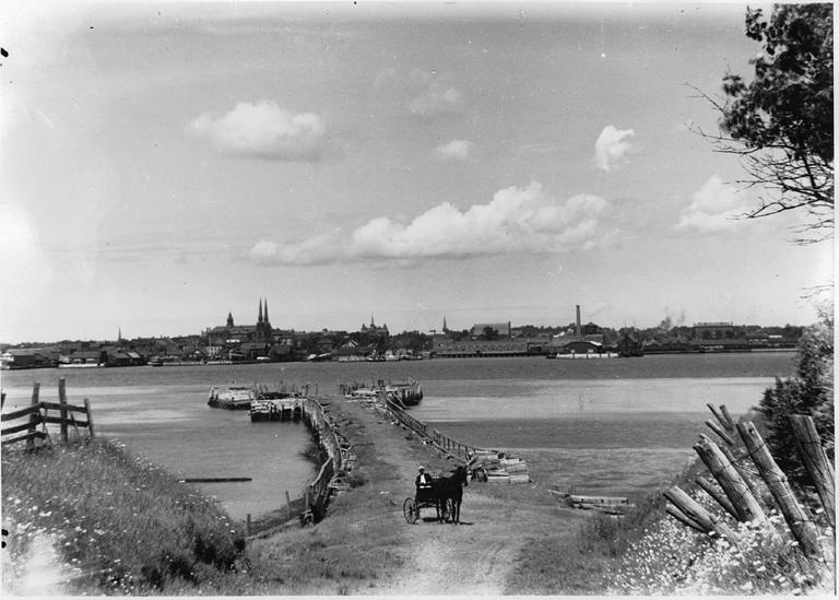 "Charlottetown from Southport, PE, 1910." Wm. Notman & Son 1910, 20th century